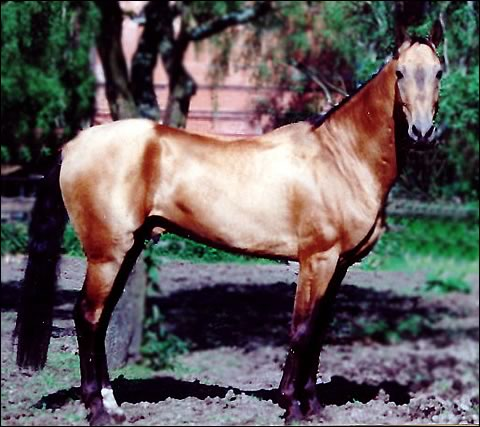 Picture of an Achal Tekkiner